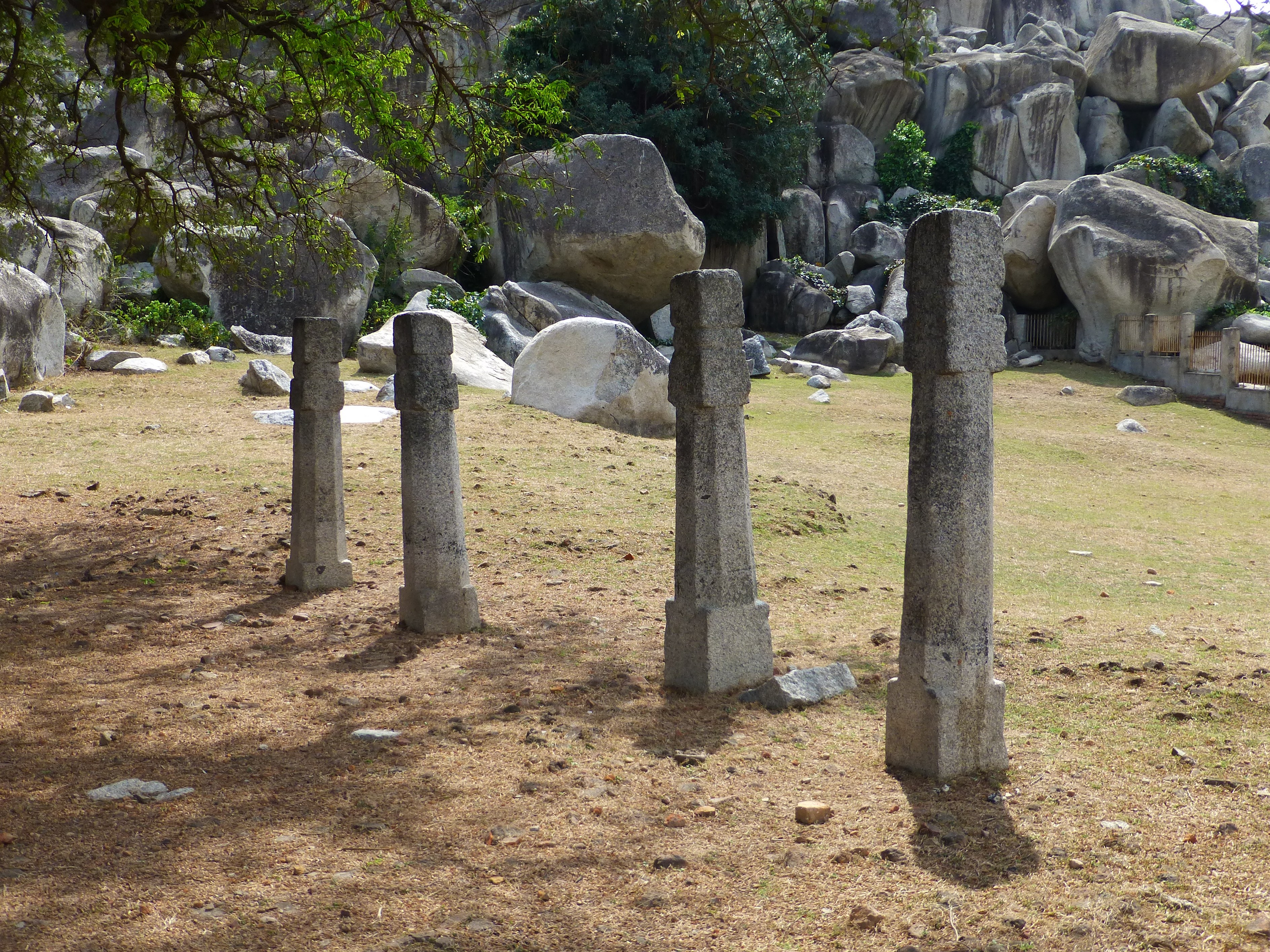 068 Columns at Barabar, Bihar Photograph from the Barabar Caves in Bihar taken by Anandajoti.